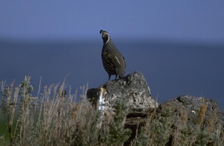 California Quail near Lakeview, Oregon